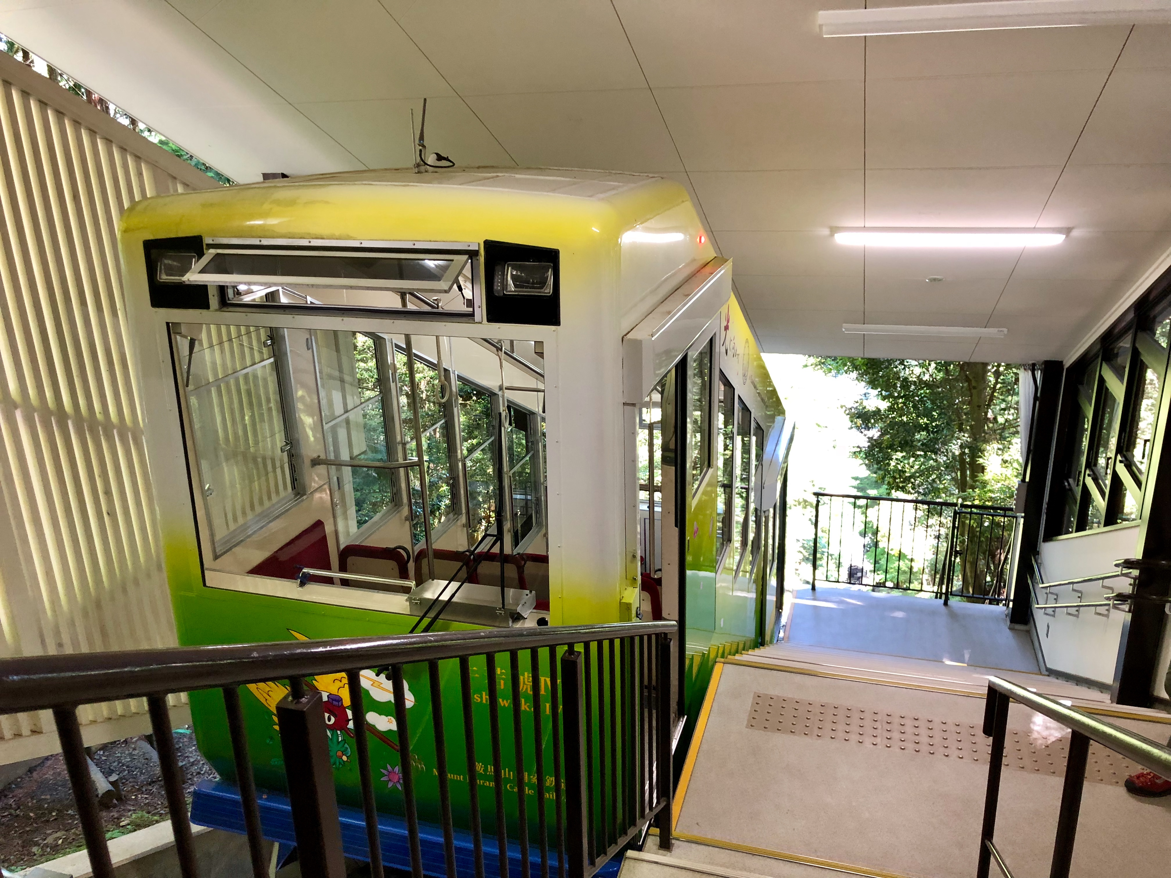 Kurama-dera Cable railway, carriage "Ushiwaka IV" at Tahōtō Station. Kurama-dera temple at Mount Kurama, Sakyō, Kyoto, Japan.